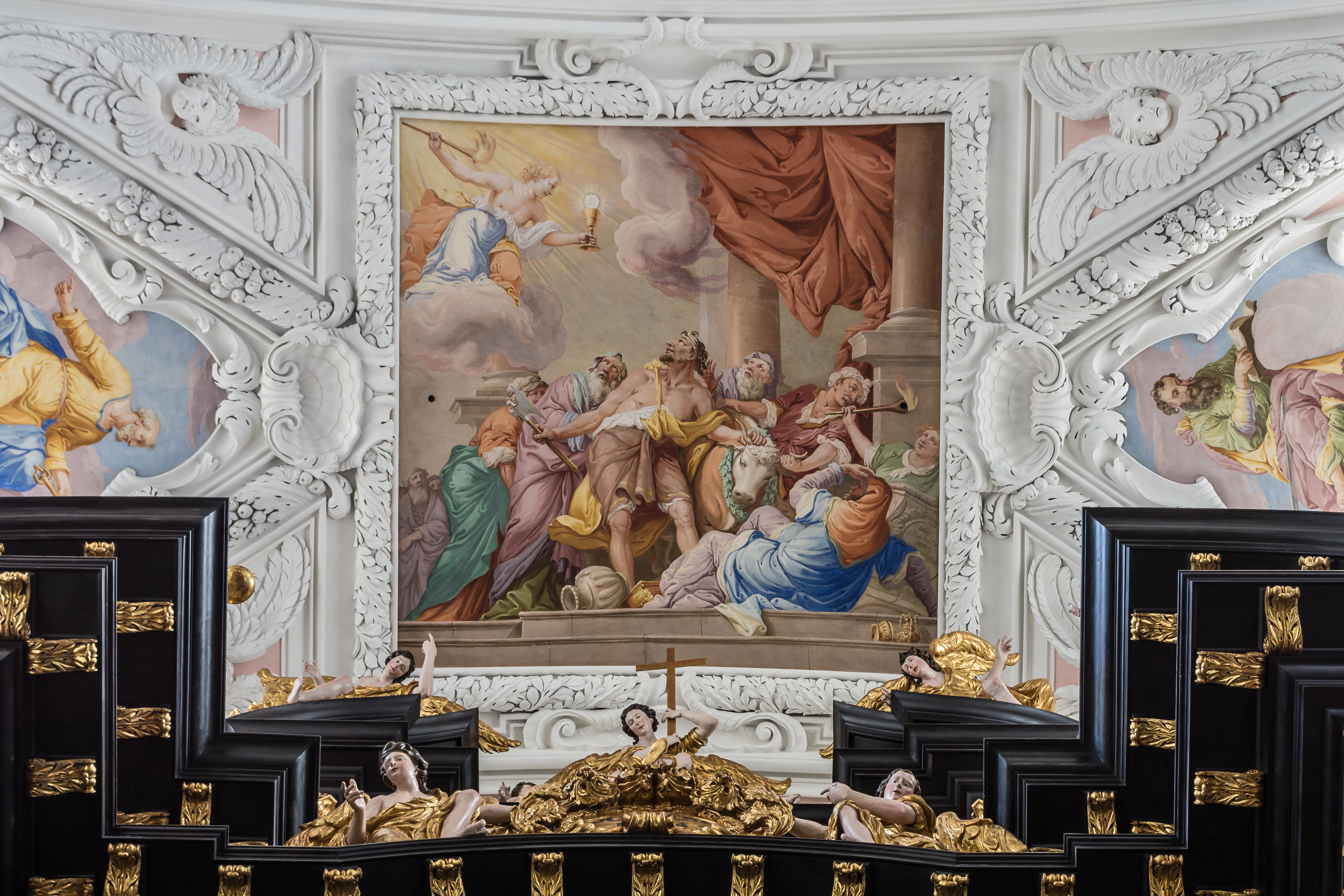 The frescos of the catholic parish church of Garsten were made by Michael Christoph Grabenberger and his brothers Michael Georg and Johann Bernhard. The stuccos are the work of Giovanni Battist and Bartolomeo Carlone as well as Peter Camuzzi and Domenico Garon. The altar was designed by Carlo Antonio Carlone and made in the workshop of Marian Rittinger.